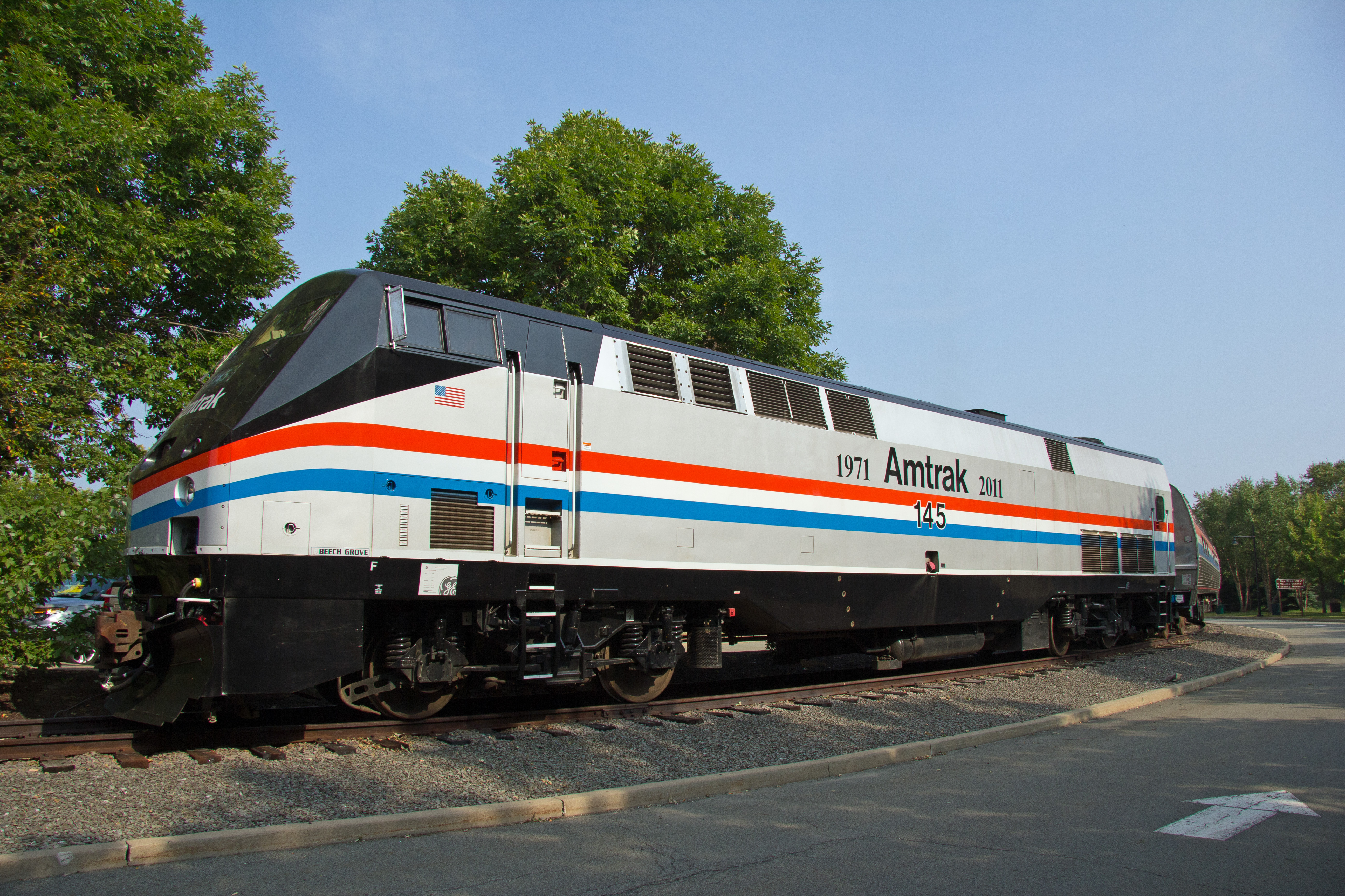 Amtrak Engine 145 basks in the sunlight at the 2011 Steamtown Railfest. Over the Labor Day weekend, the engine was providing electrical power to Amtrak's 40th Anniversary Train.